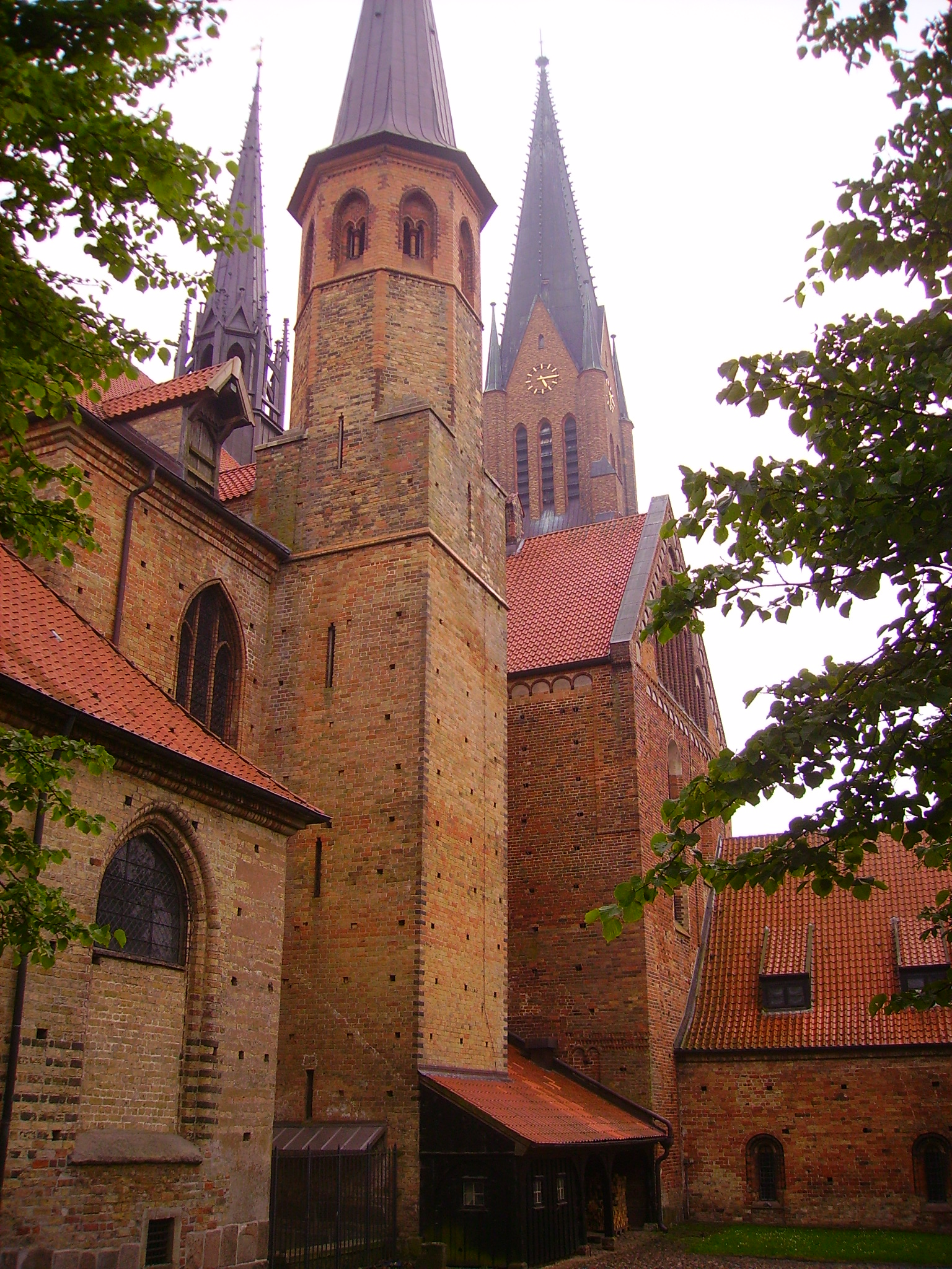 Cathedral St. Peter, Schleswig